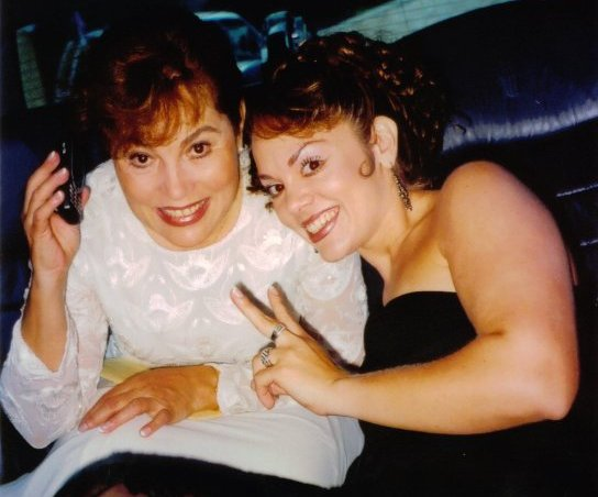 Mexican singer/TV host/children's entertainer Tatiana (right), with her mother Diana Perla Chapa, on the way to the Latin Grammys in Miami on September 3, 2003. Taken by Daniel R. Tobias.